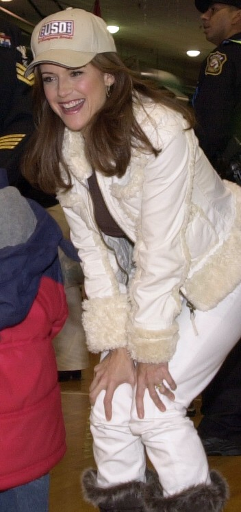 Caption: Norfolk, Va. (Dec. 3, 2005) - Actress Kelly Preston talks with Navy family members at the United Service Organization (USO) holiday party at Rockwell Hall Gym on board Naval Amphibious Base Little Creek, Va. The USO's annual holiday party gives service members and their families from throughout the mid-Atlantic region a chance to celebrate the holidays together. The party originally started in a partnership with Cox Communications as a way for families of deployed service members to record and send messages to their loved ones.